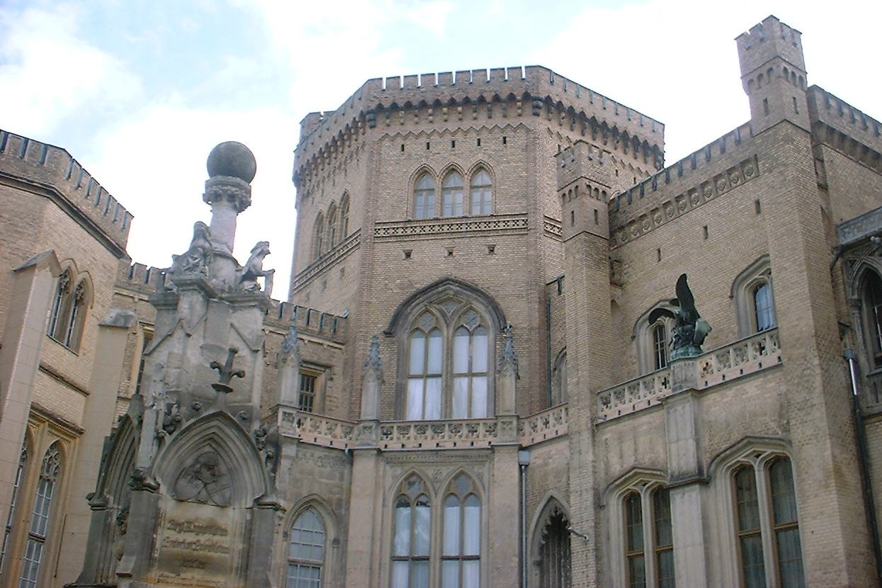 Details of castle Babelsberg in Potsdam in Brandenburg, Germany